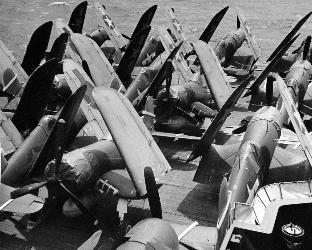 A collection of F4U Corsair fighters onboard the USS Saginaw Bay (CVE-82) on 19 April 1944. These aircraft are not part of her aircraft contingent, nor would they reasonably be able to operate off of her short flight deck. Rather, they are being transported to Pearl Harbor.